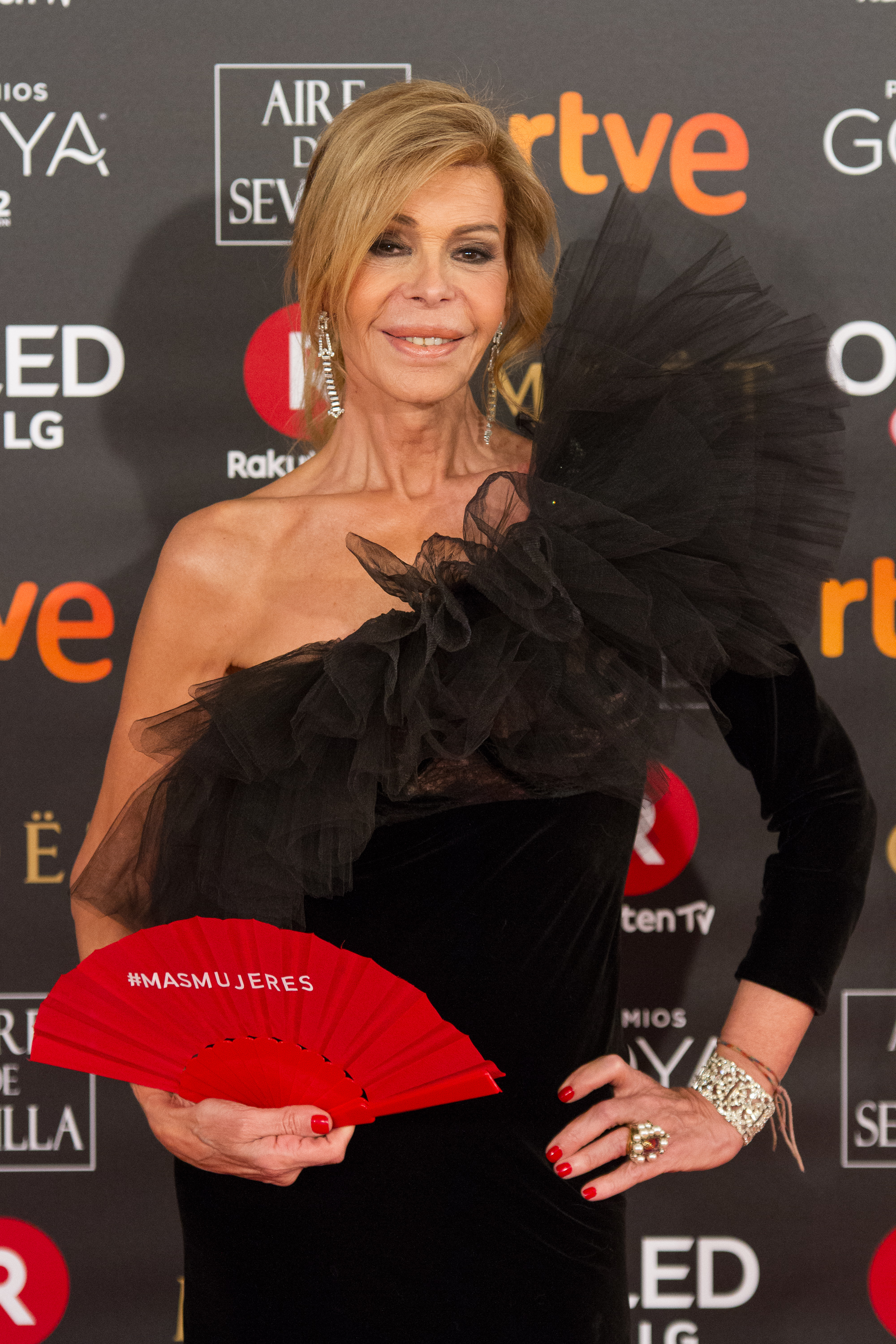 32nd Goya Awards, 2018.